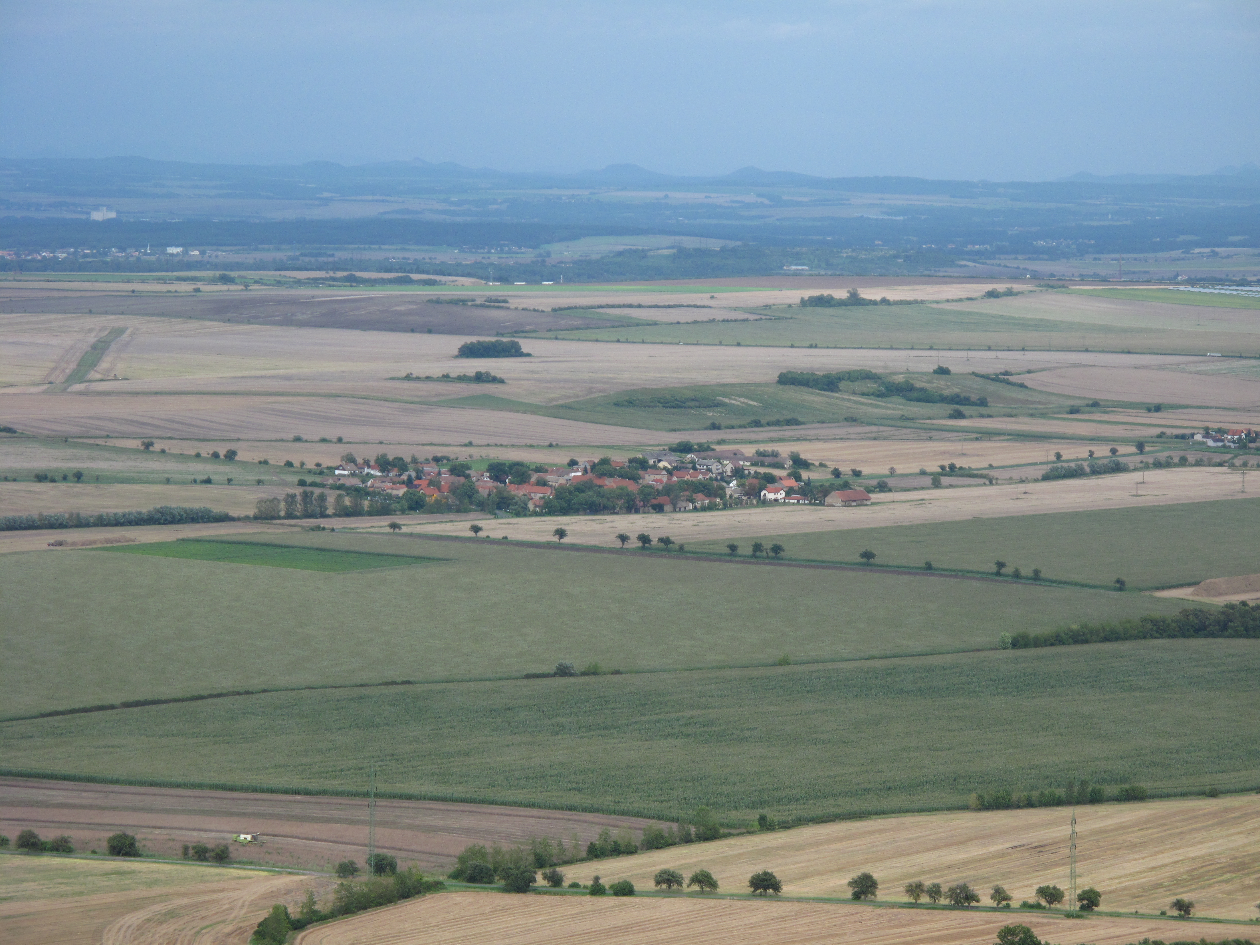 Černiv village as seen from Hazmburk Castle (ruin), Litoměřice District, Czech Republic.